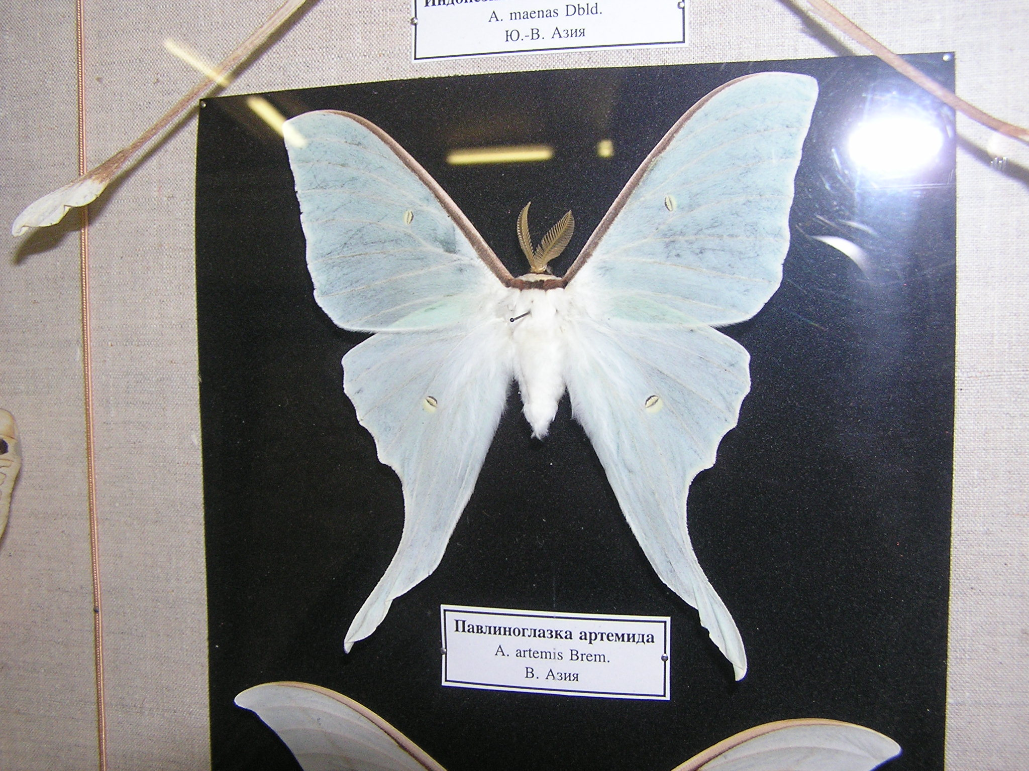 Actias artemis